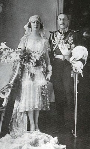 The Dukes of Alba.